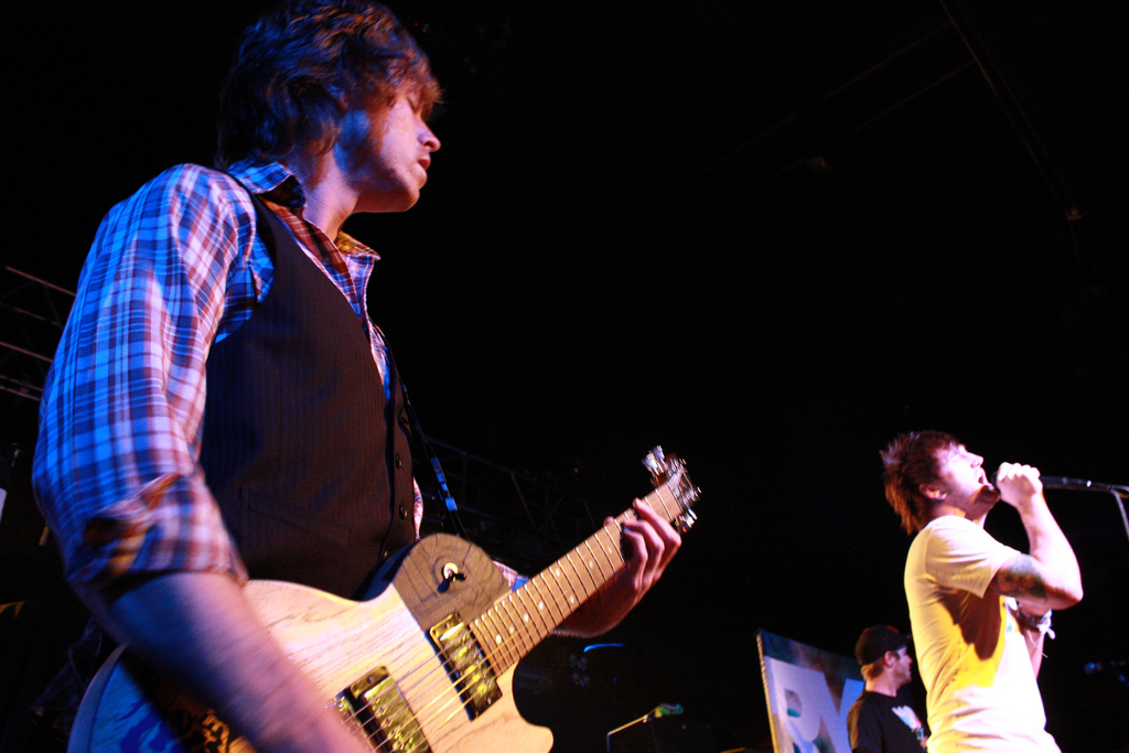 Every Avenue band on a Sellout Tour in November 2008.